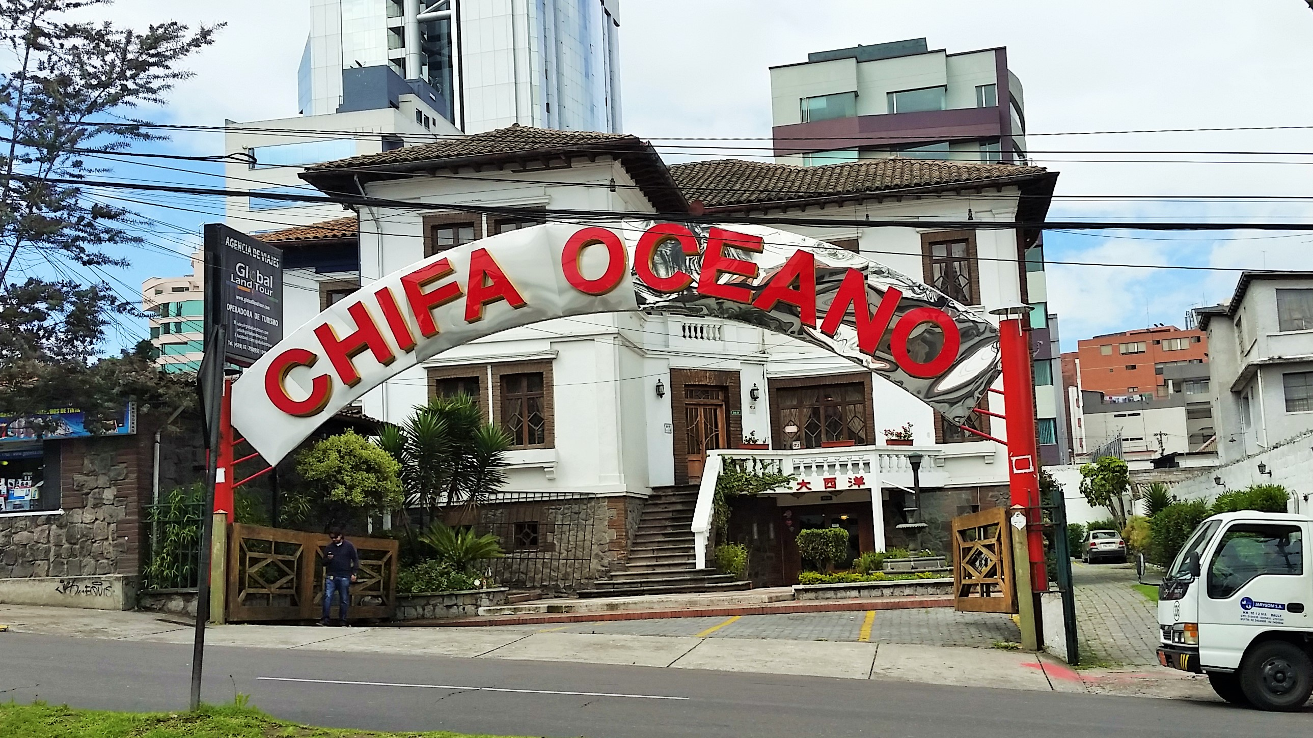 Chinese restaurant in Quito, Ecuador.